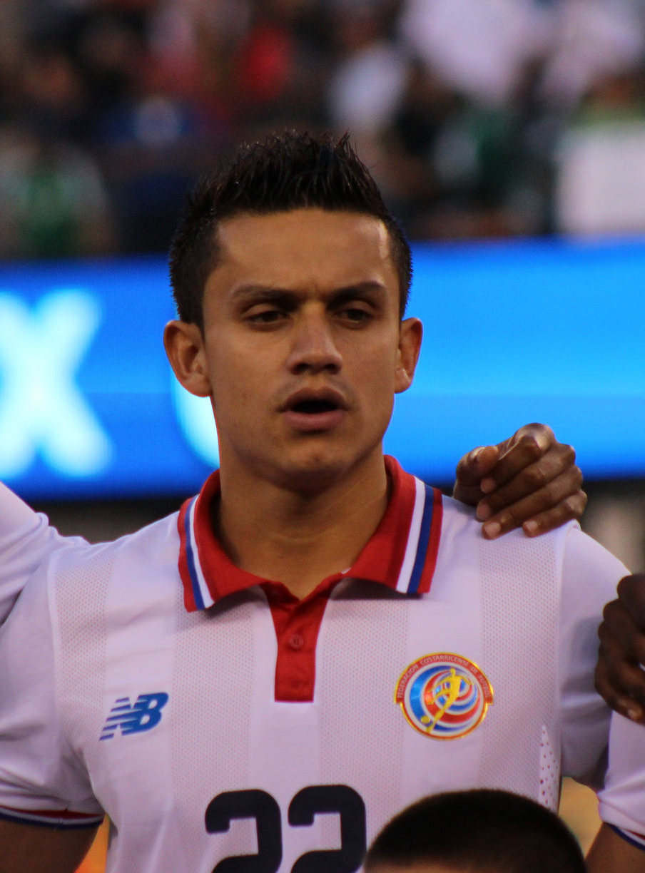 Costa Rican player José Miguel Cubero. The image is a crop of the original found in Flickr